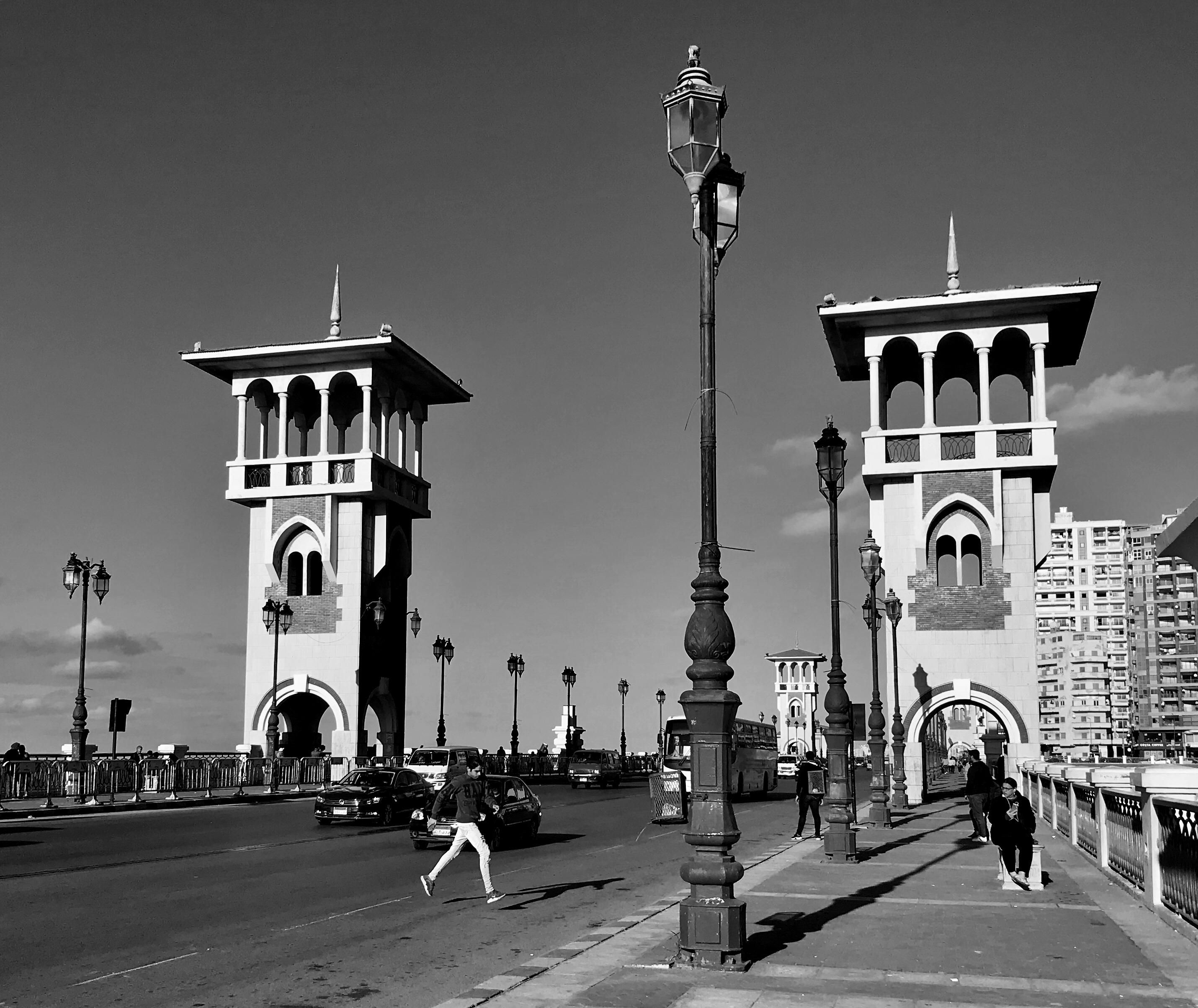 A man crosses the road at Stanley bridge in Alexandria, Egypt. This is an image with the theme "Africa on the Move or Transport" from: Egypt